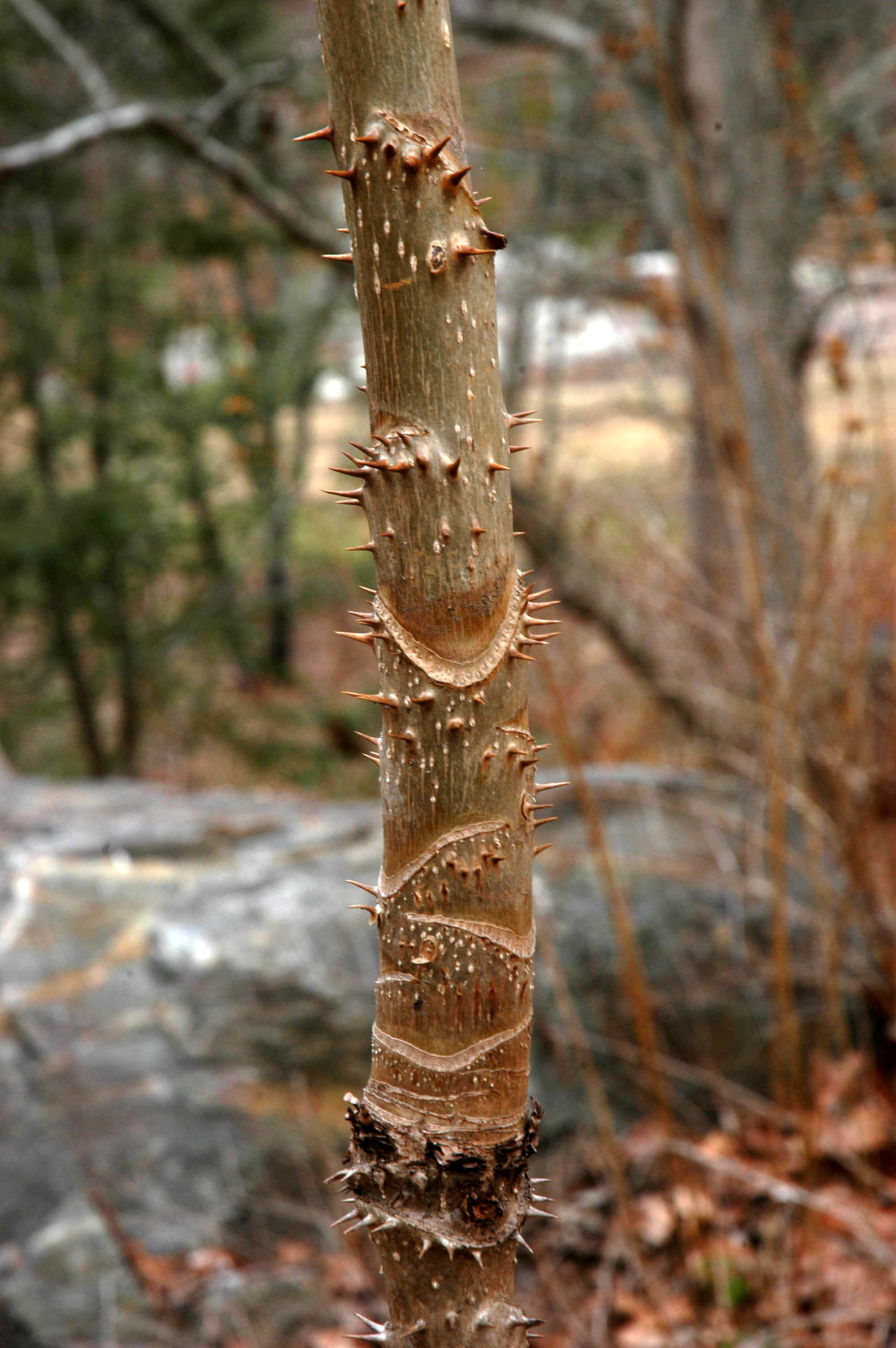 The Devil's Walking Stick at the Asheville Botanical Gardens, Asheville, North Carolina, USA. Winter time